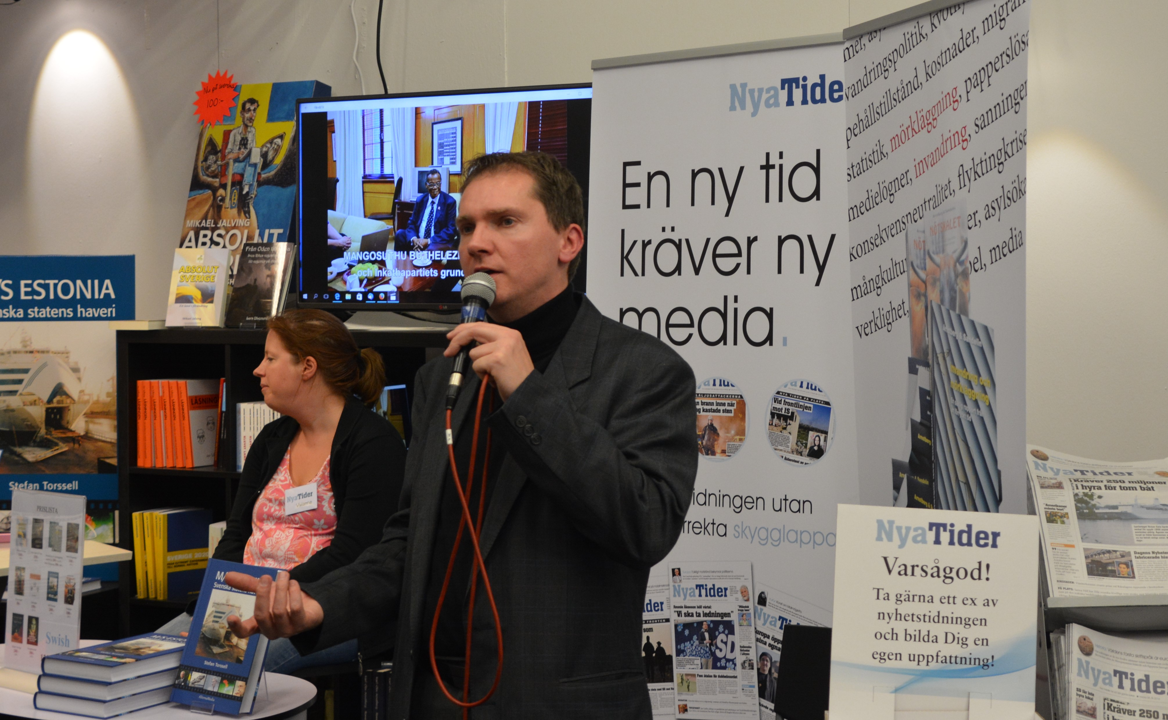 Vávra Suk på Nya tiders monter på Bokmässan 2016